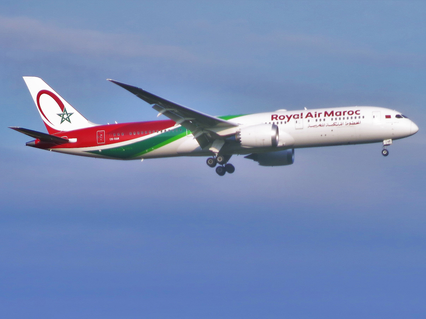 A Royal Air Maroc Boeing 787-9 Dreamliner, the first RAM aircraft in the new livery, is on final approach to John F. Kennedy International Airport, arriving from Mohammed V International Airport as Flight 200.